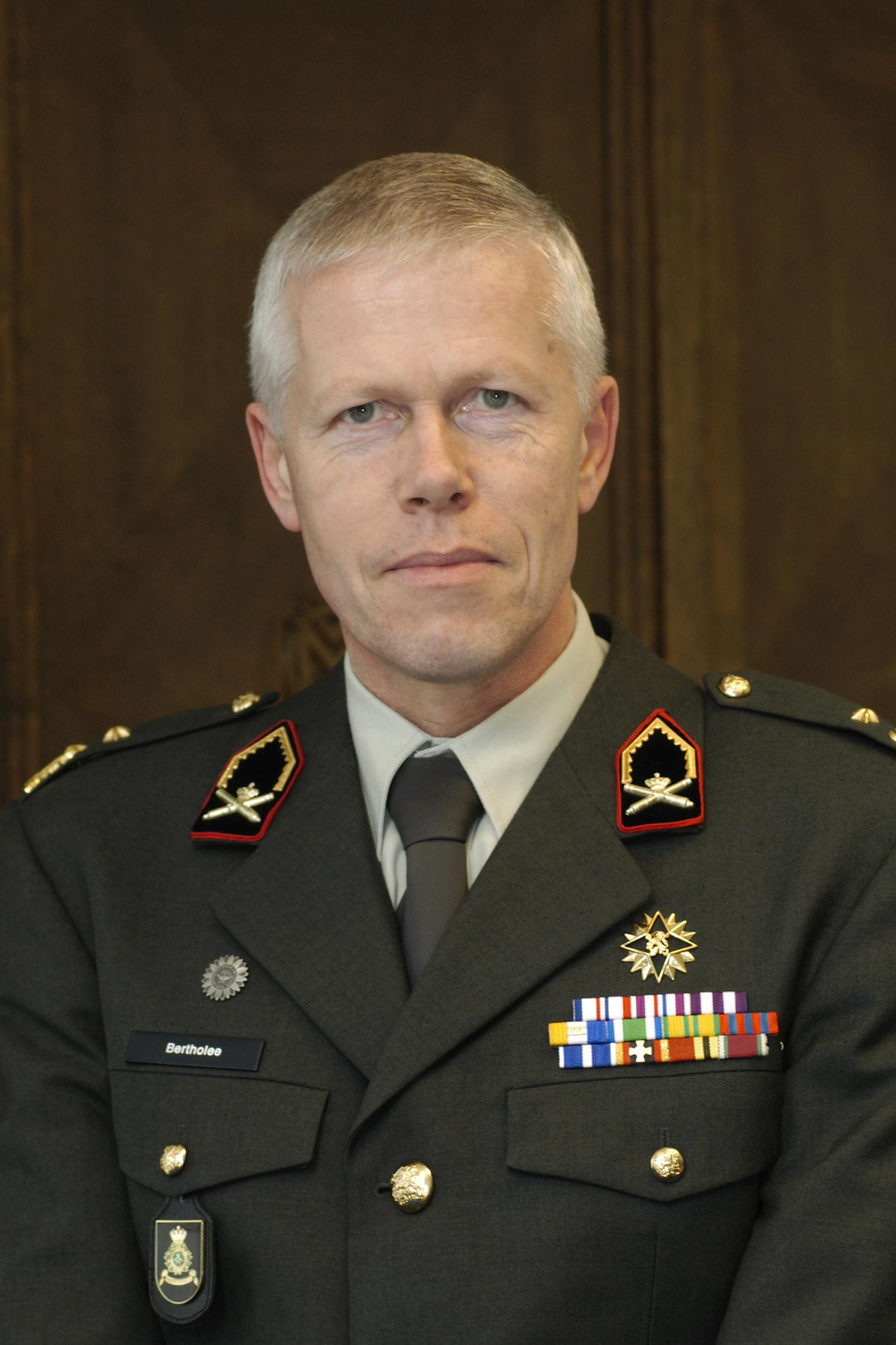 Rob Bertholee, former commander of the Royal Netherlands Army and current head of the General Intelligence and Security Service